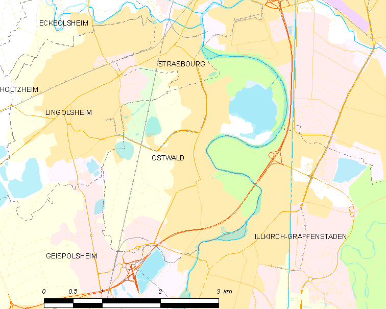 Map of French municipality